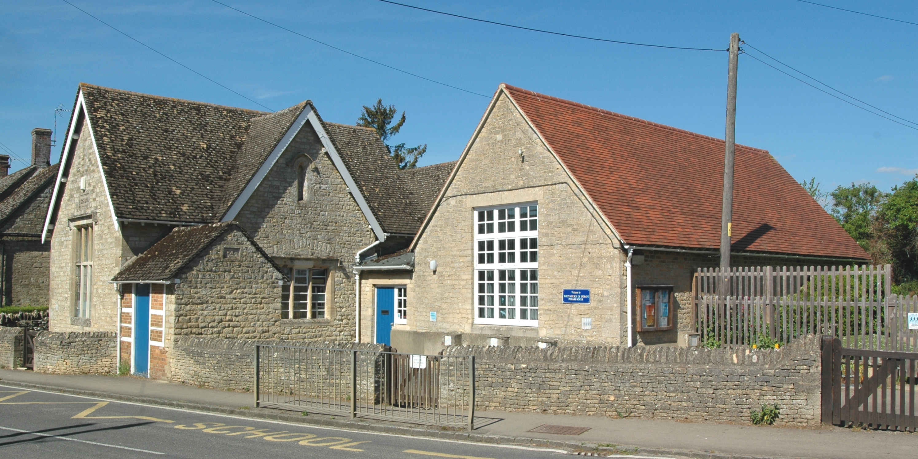 Church of England parish school at Hailey, Oxfordshire, built by William Wilkinson in 1848 & extended by Clapton Crabb Rolfe in 1892